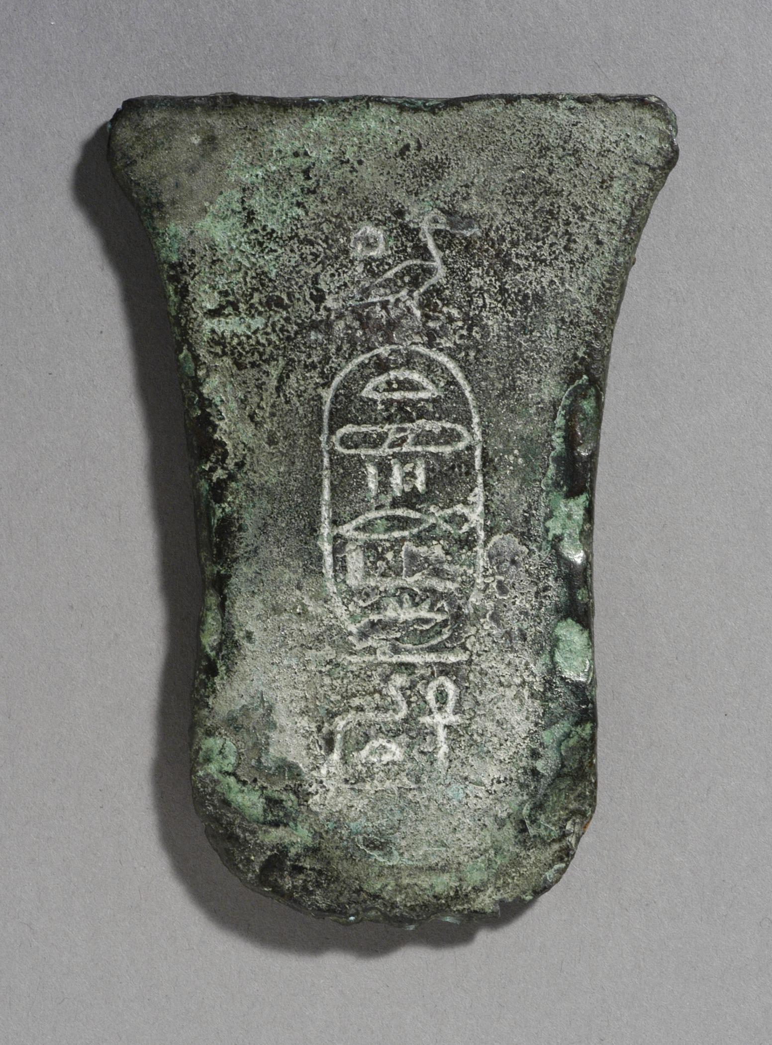 Egypt, New Kingdom, 17th Dynasty (1600 - 1569) or later Arms and Armor; axes Bronze Length: 3 13/16 in. (9.76 cm); Width at the butt: 2 11/16 in. (6.83 cm); Depth: 5/16 in. (7.5 mm) Gift of Carl W. Thomas (M.80.203.43) Egyptian Art